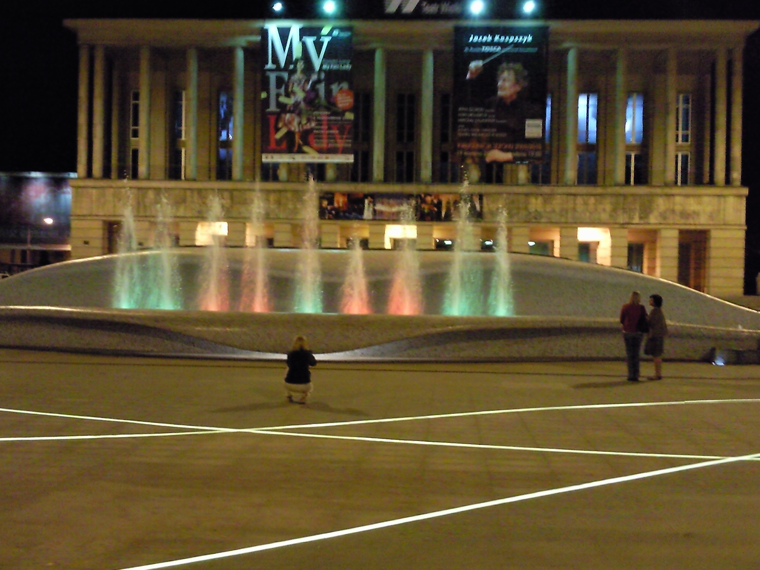 Dabrowski Square in Lodz